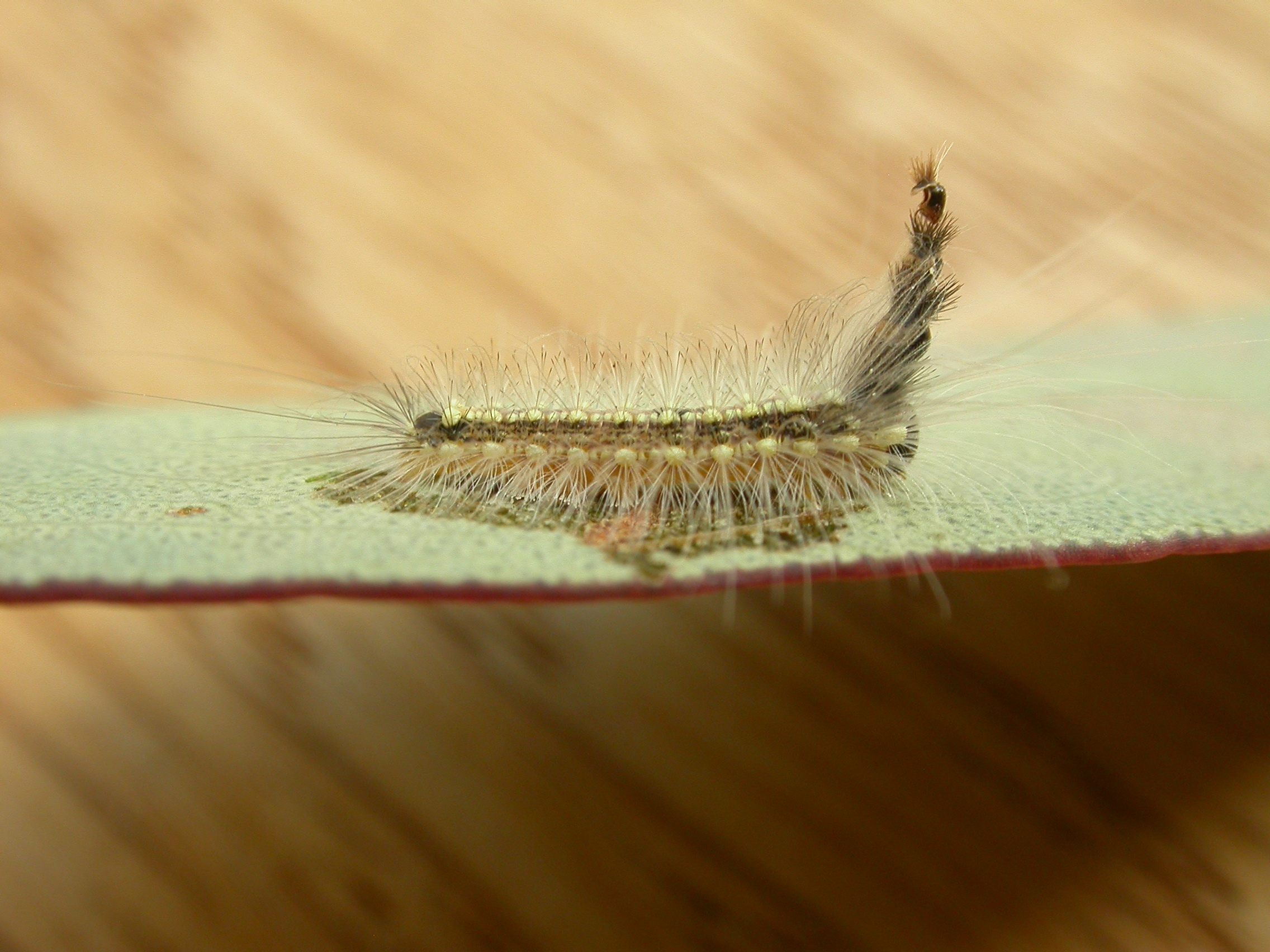 Uraba lugens Walker, 1863, larva on juvenile Eucalyptus melliodora foliage, Black Mountain, Canberra, ACT, 8 February 2010 Note head capsules from previous instars stacked on head.